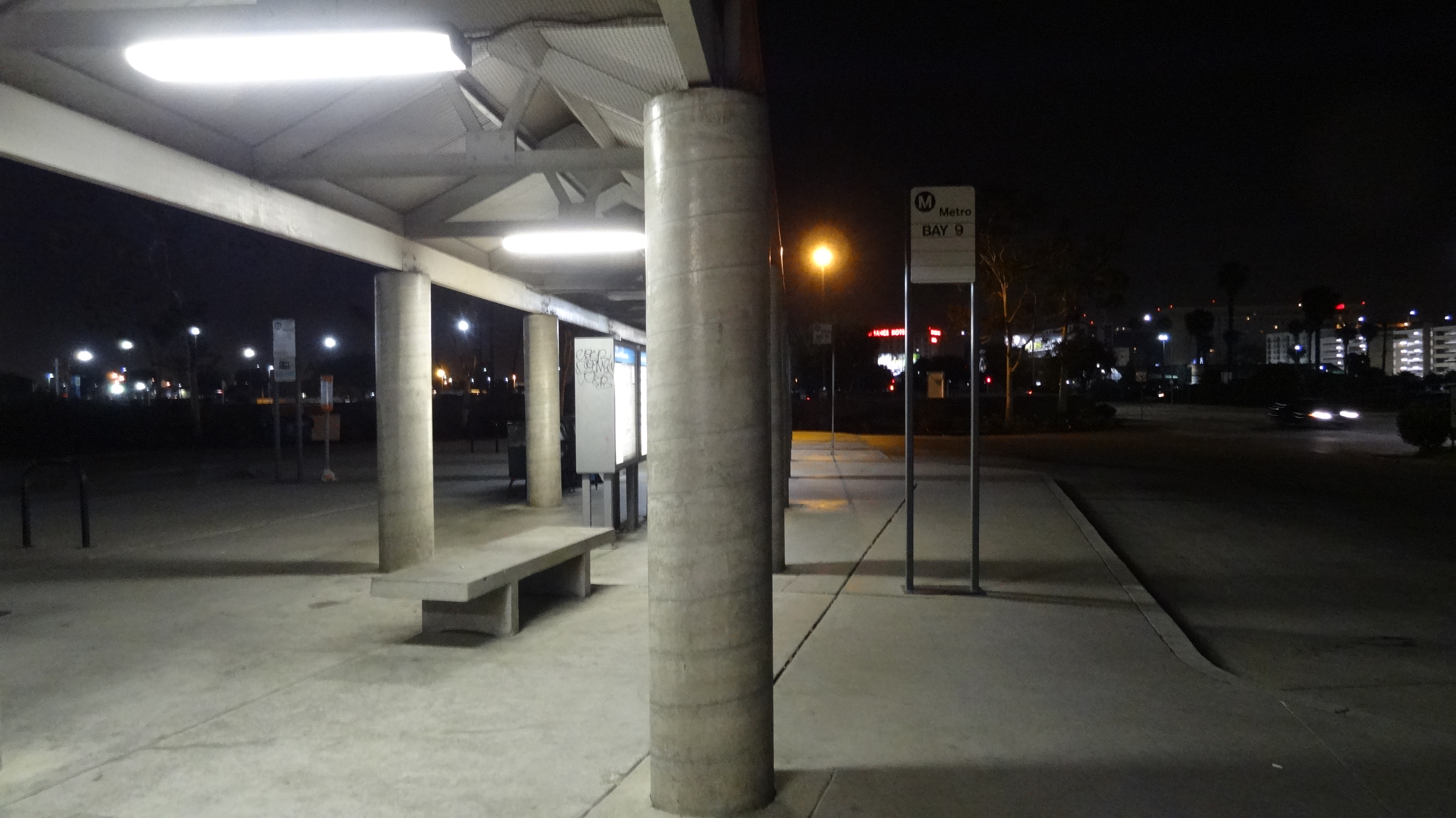 LAX City Bus Center.